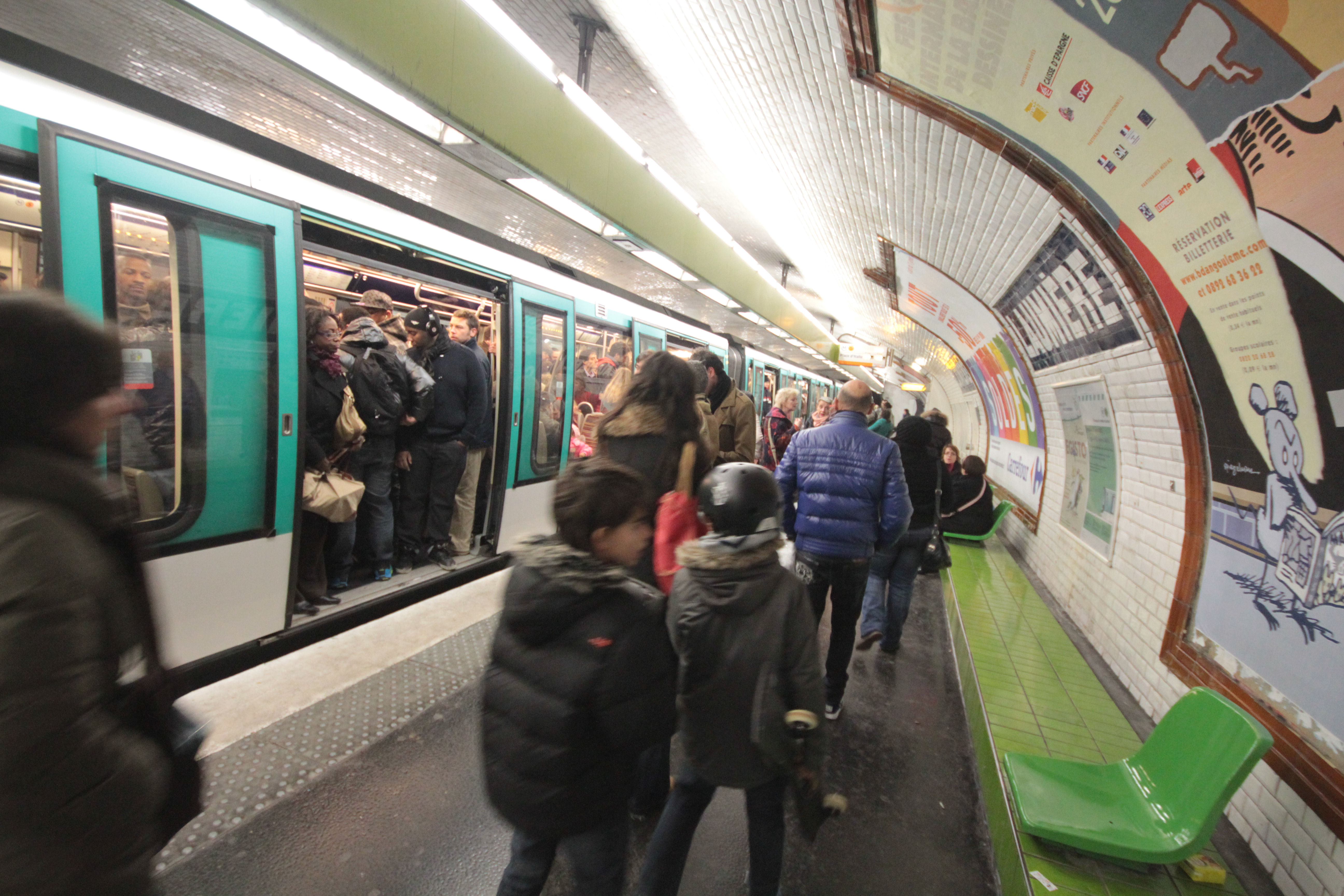 A busy MF2000 leaves station Laumière of Parisian metro line 5